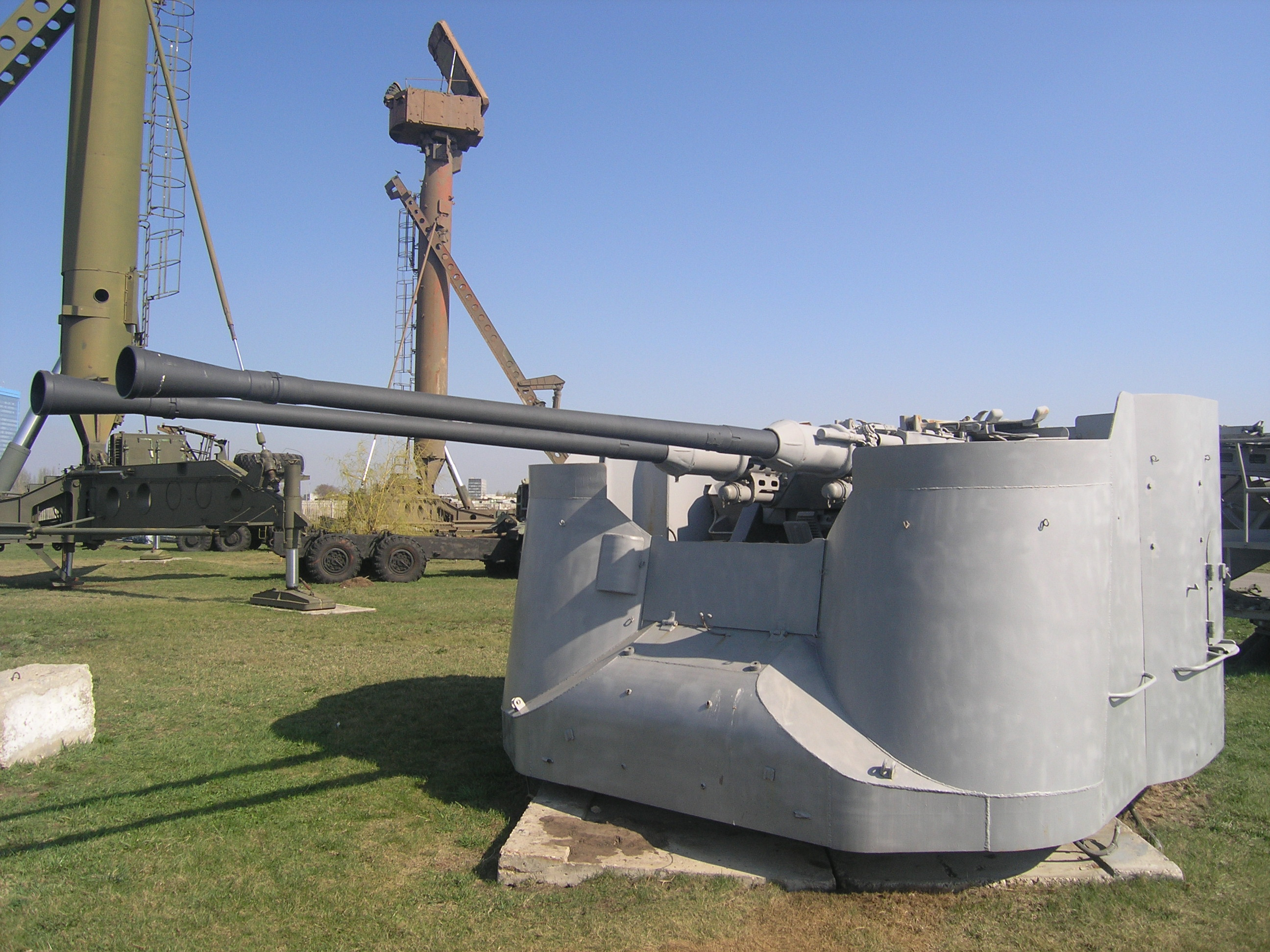 57-mm naval gun ZIF-31 in Technical museum Togliatti